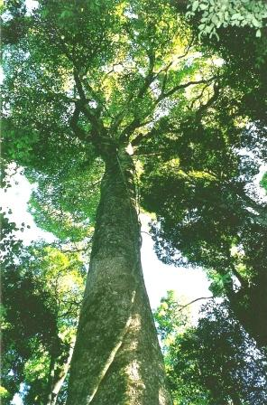 Giant Gmelina approx 50 metres tall and a thousand years old (estimated by National Parks & Wildlife officer) - Tooloom Scrub